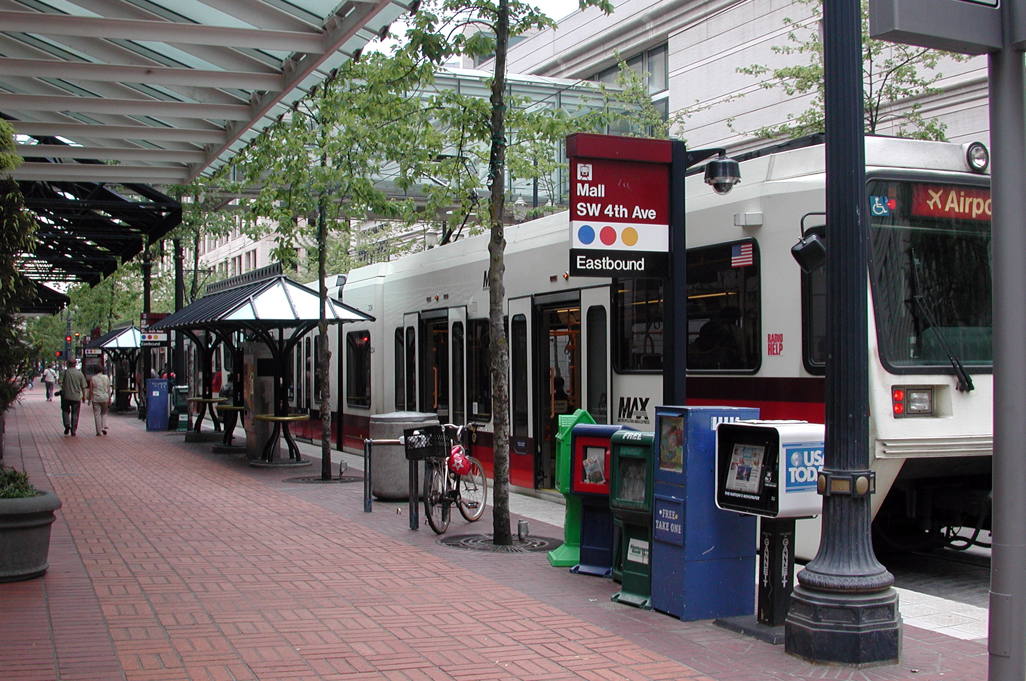 Southwest 4th Avenue Metropolitan Area Express (MAX) light-rail station in Portland, Oregon, United States, looking east-southeast